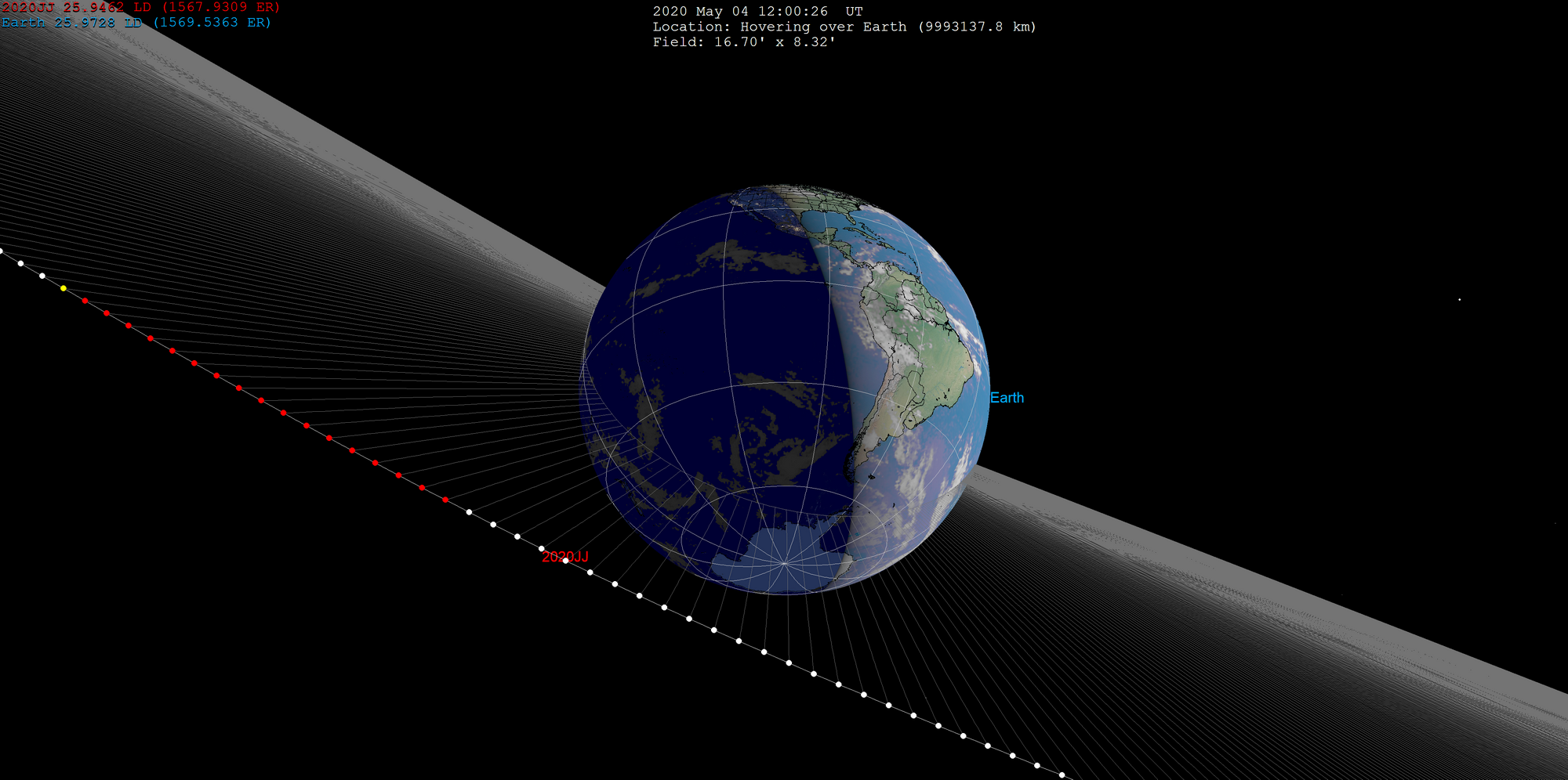 2020 JJ flyby of the earth with 1 minute motion, red dots shows where in earth's shadow